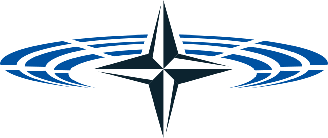 NATO Parliamentary Assembly logo